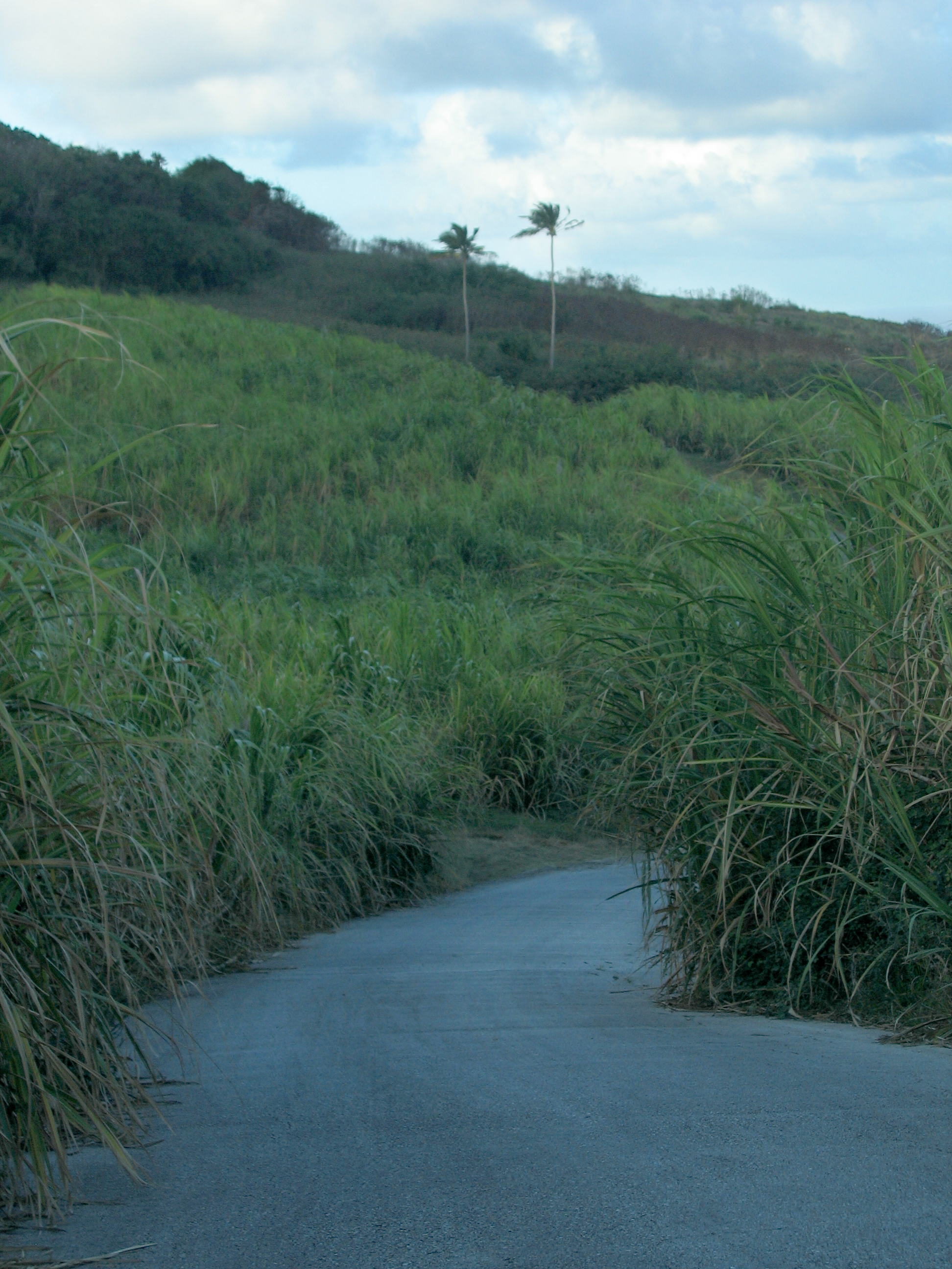 Road from Cherry Tree Hill through sugar cane, Saint Andrew, Barbados.